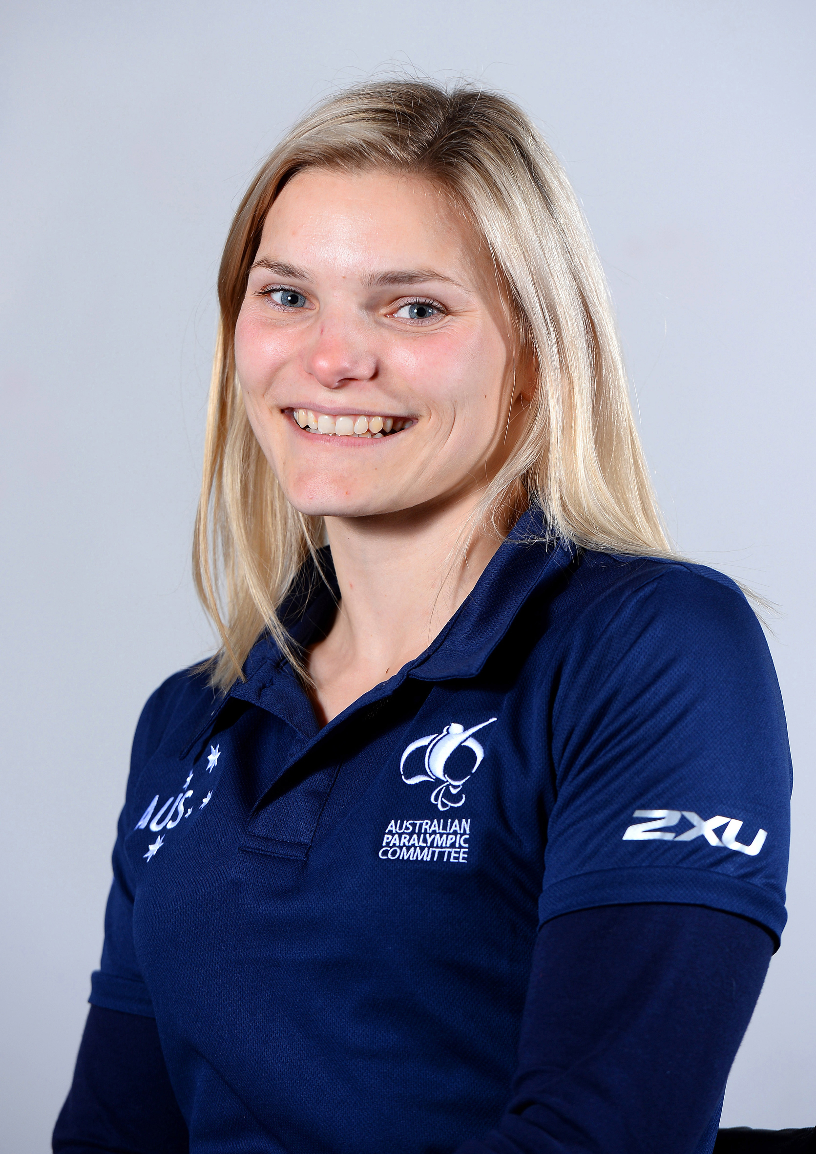 Portrait photograph of Jemima Moore taken at team processing session for shadow members of 2016 Australian Paralympic team